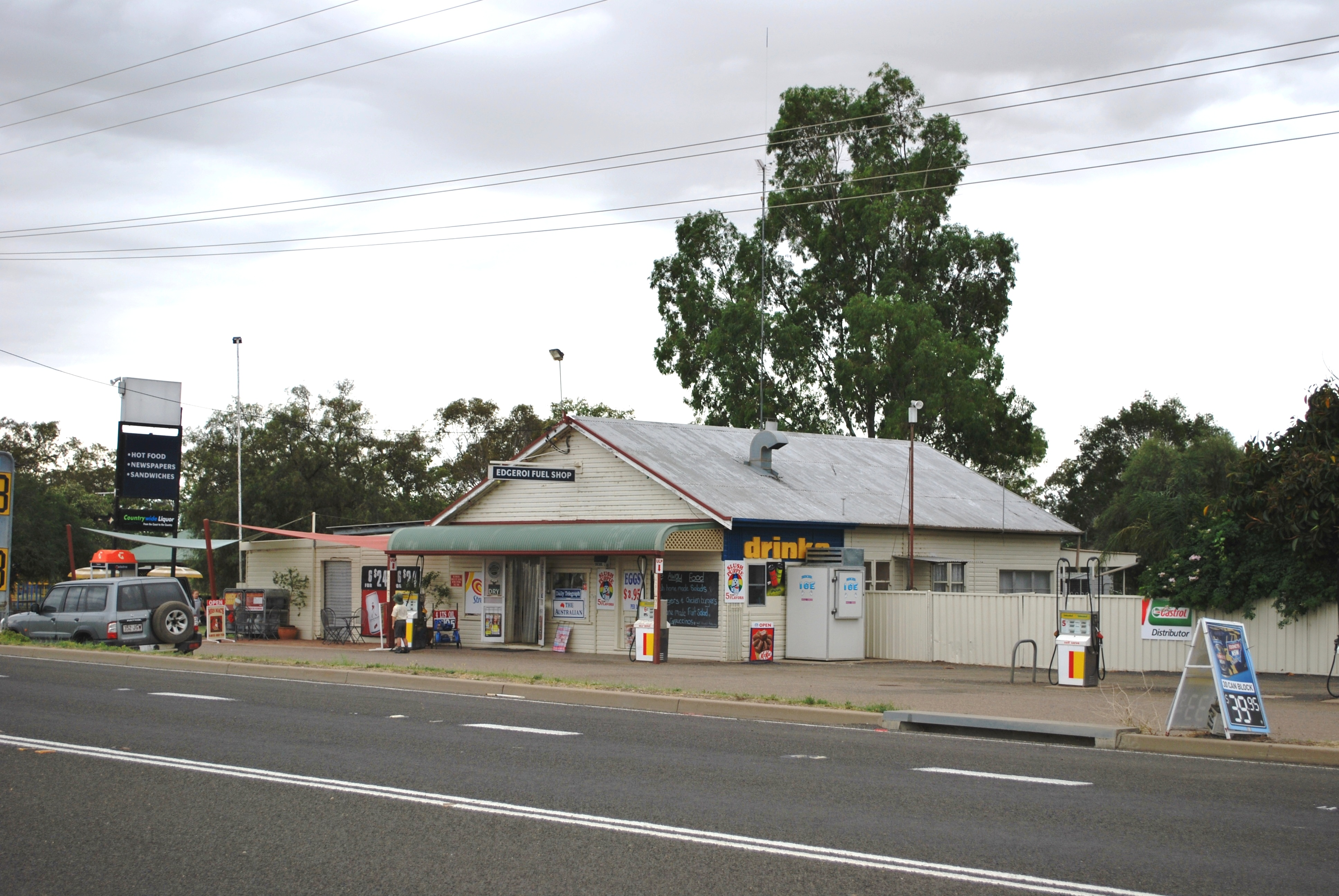 Petrol station at Edgeroi, New South Wales